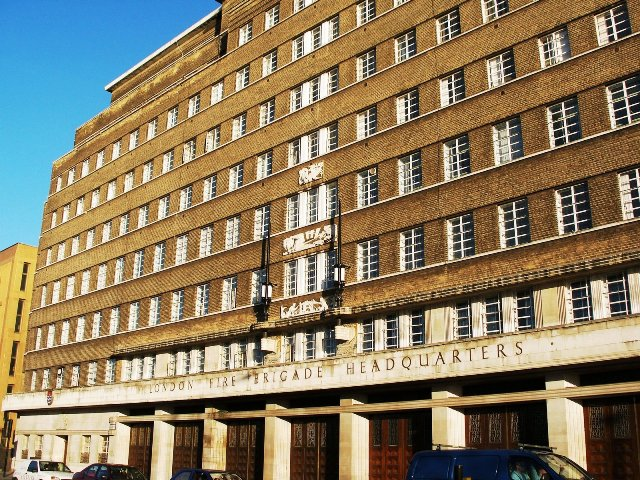 London Fire Brigade Headquarters